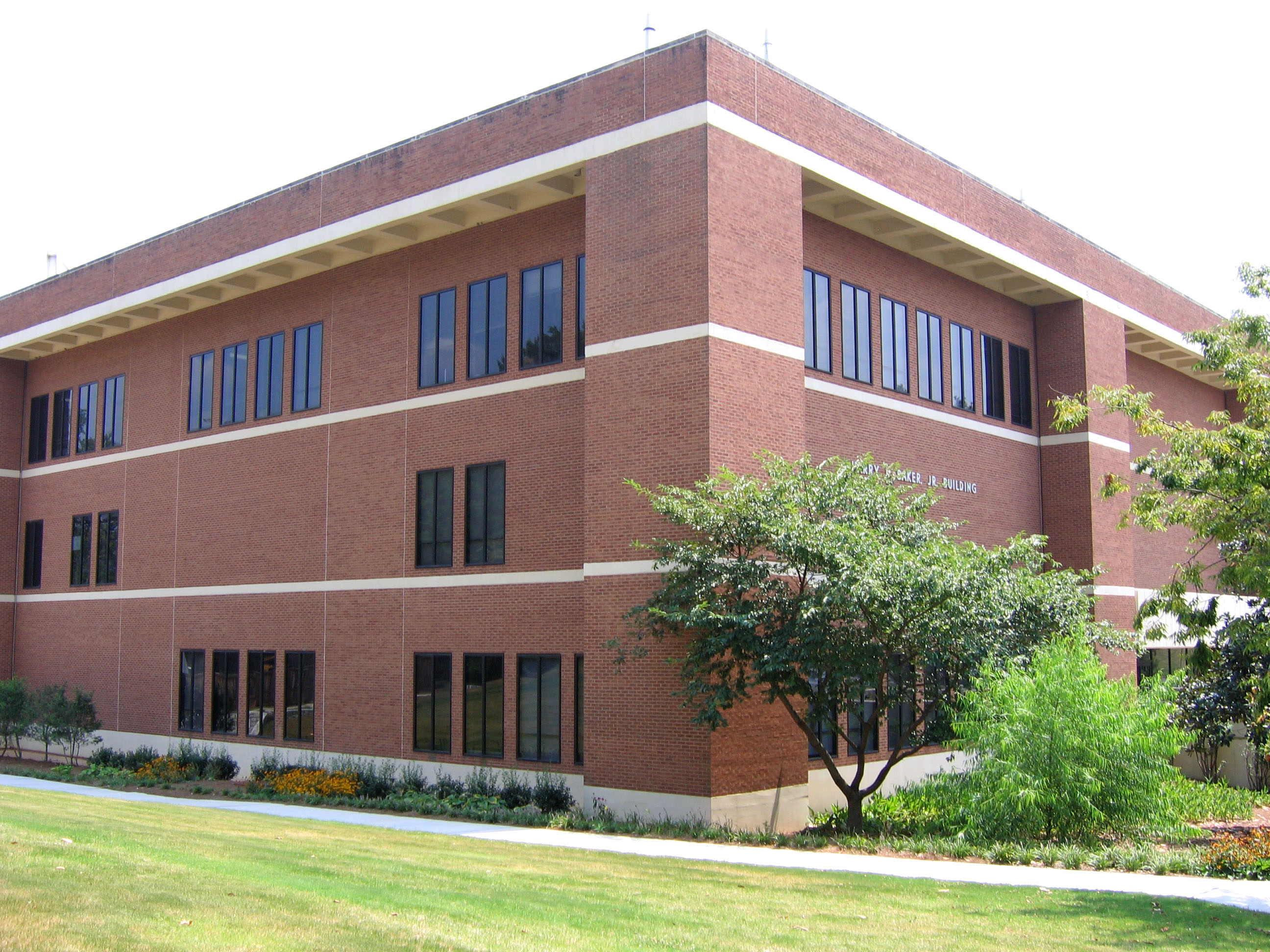 Description: the Baker Building, which houses part of the Georgia Tech Research Institute. Source: I, User:Disavian, took this picture on 2007-08-13.